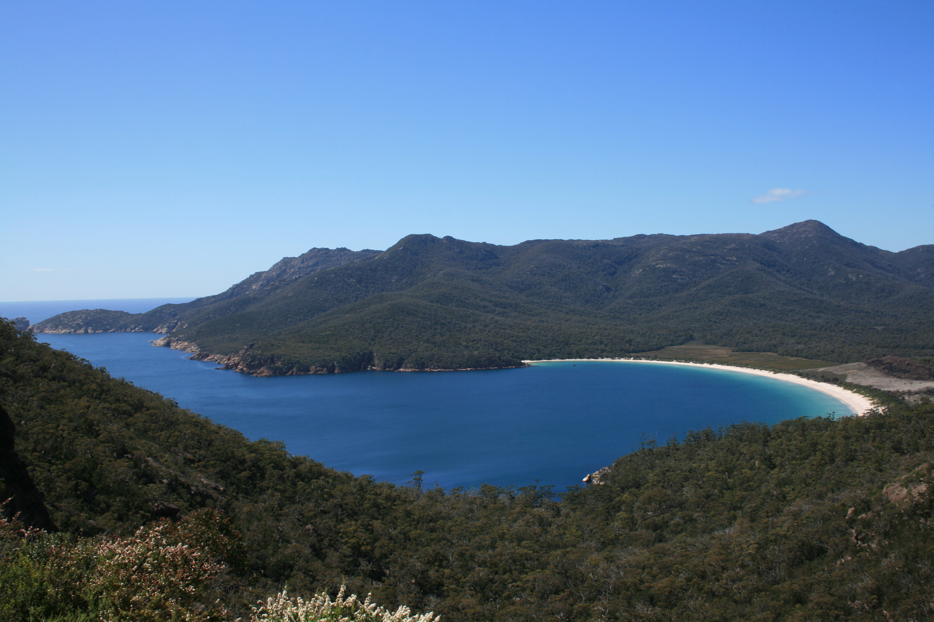 Wineglass bay, Freycinet National Park, Tasmania, Australia